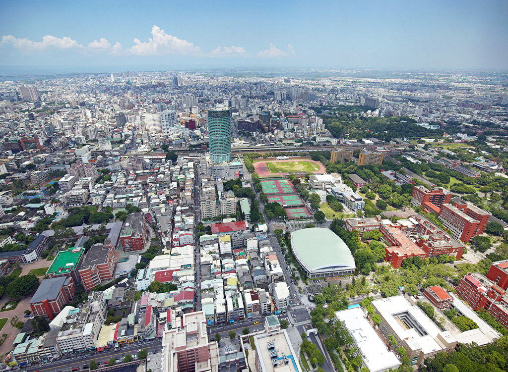 Downtown Tainan in 2012.